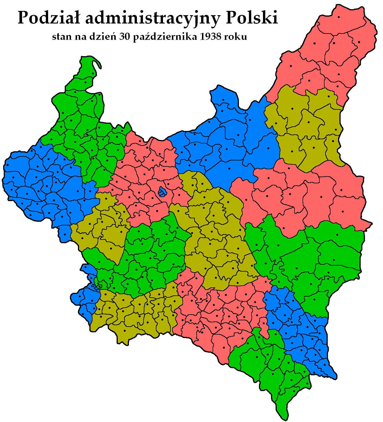 Political divisions in Poland on 31 October 1938